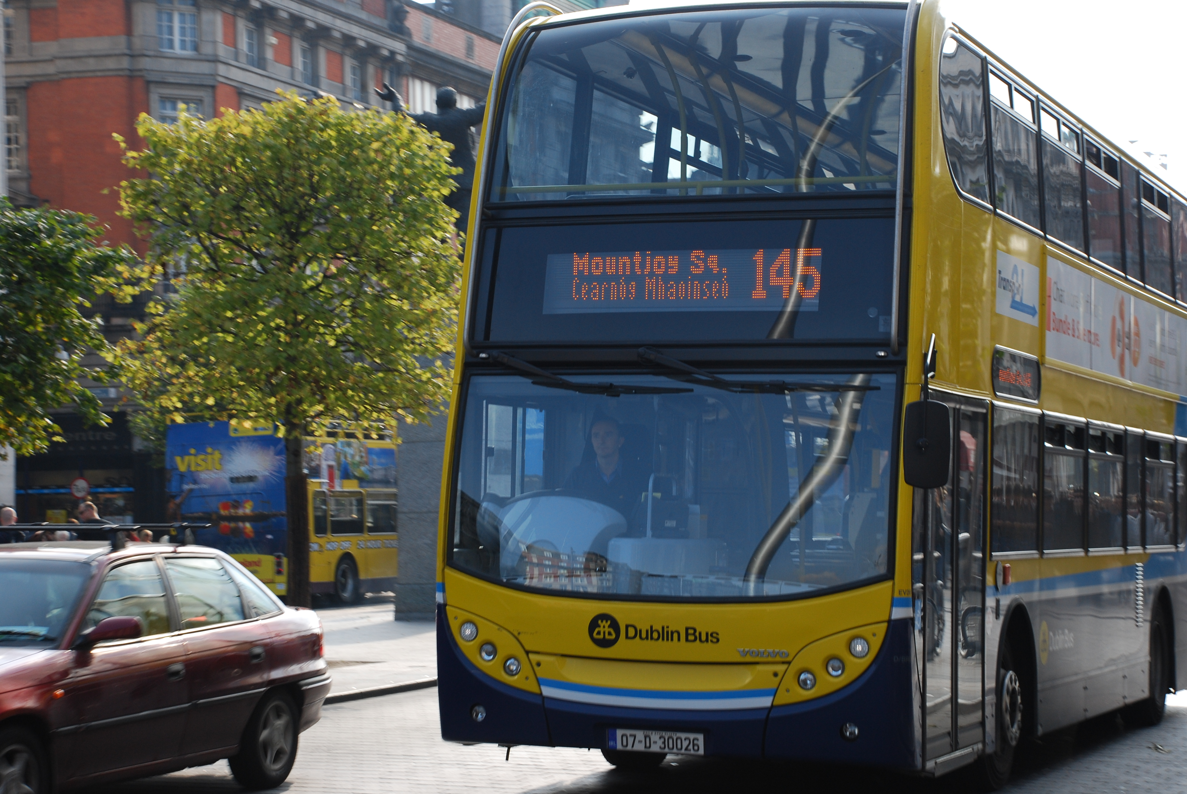 Bus line 145 in Dublin